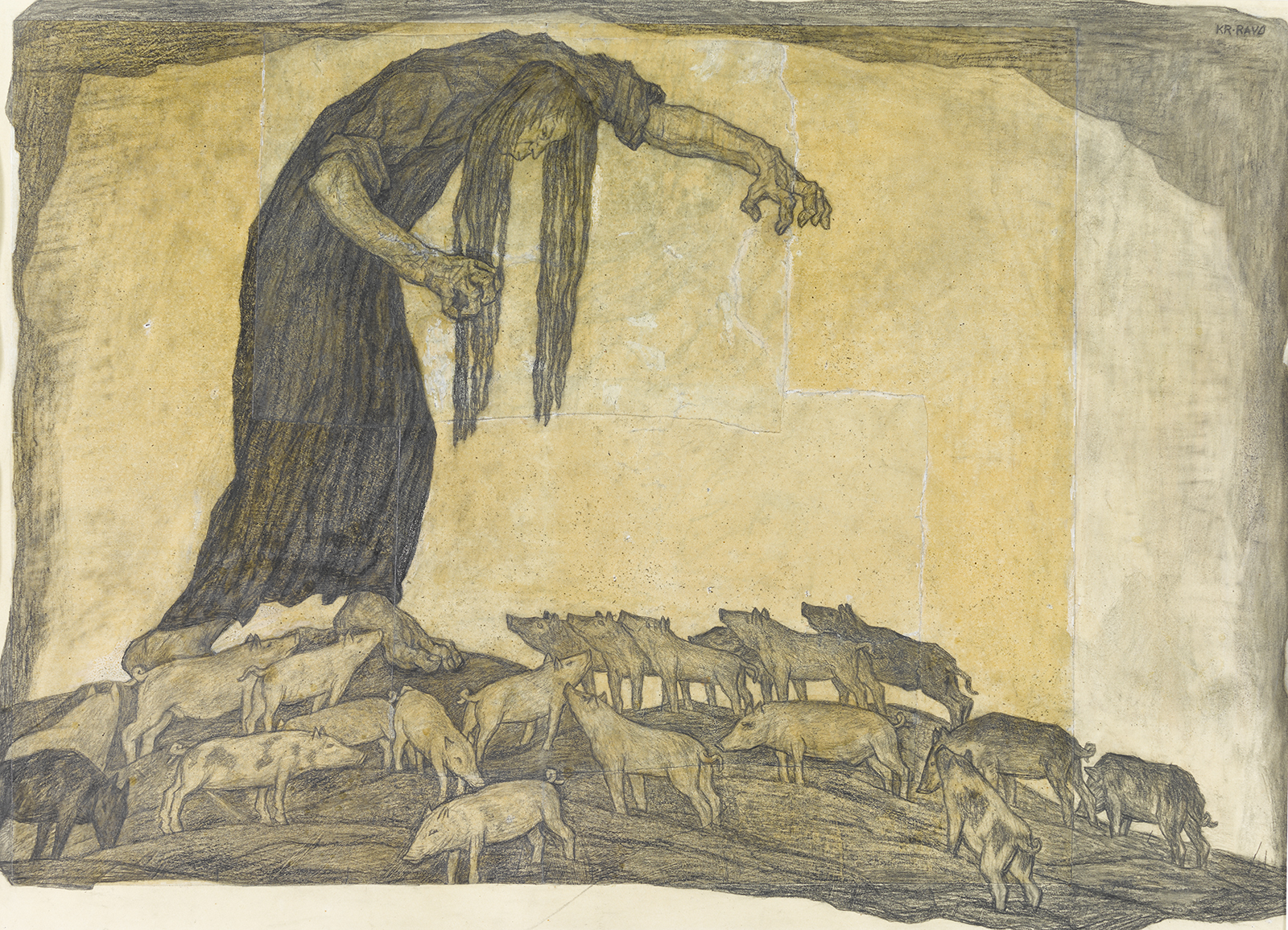 Kristjan Raud. Witch and Piglets. 1914. Charcoal and pencil on paper. EKM j 153:1313 G 1665.